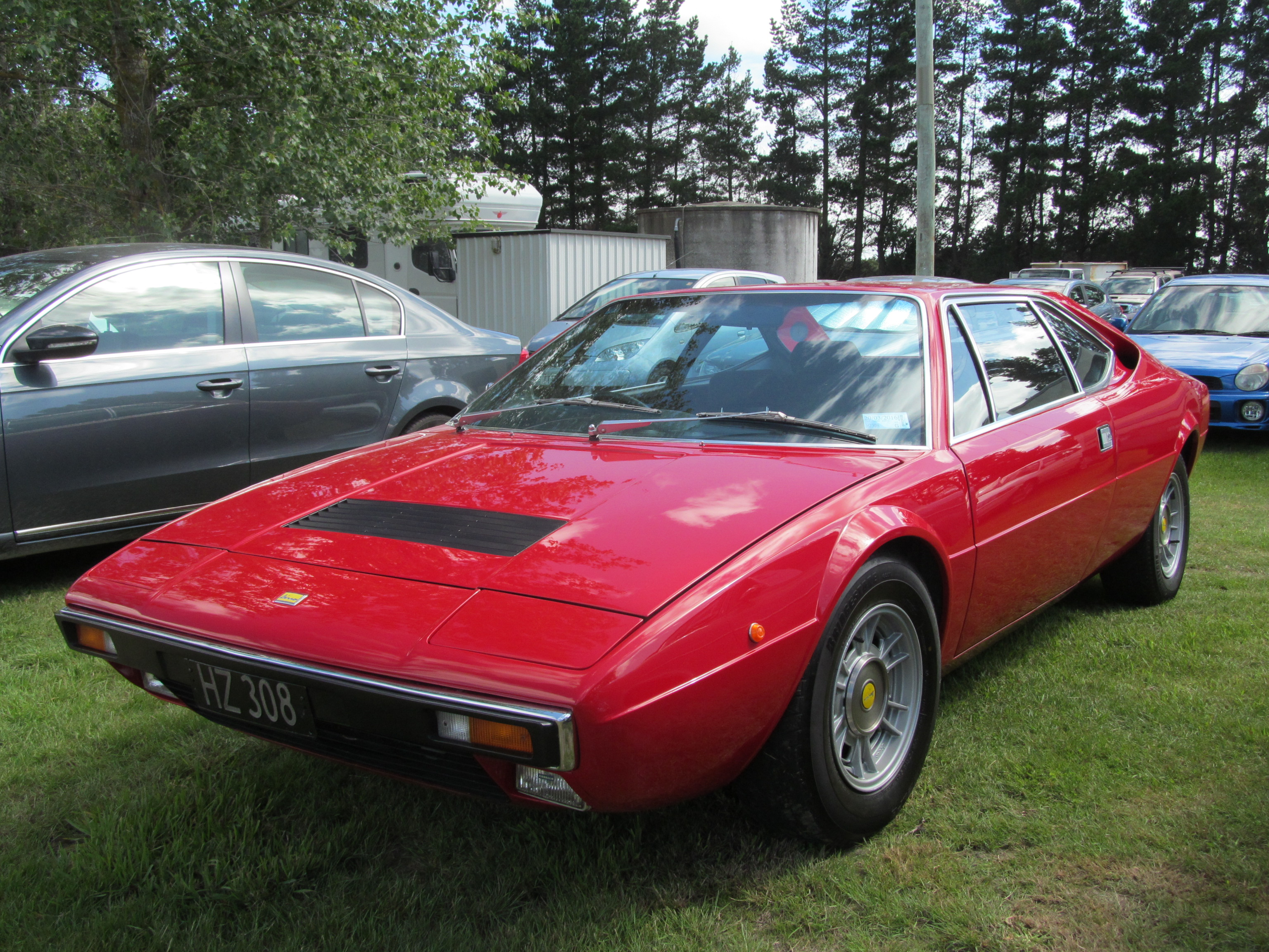 One of my favourite Ferraris ever. This one has been here since new, when it would have cost the first owner a fortune to get hold of. I imagine it would have been ordered from overseas by someone prominent as there's no way anything like this would have been able to be bought off a dealer forecourt in 1975.